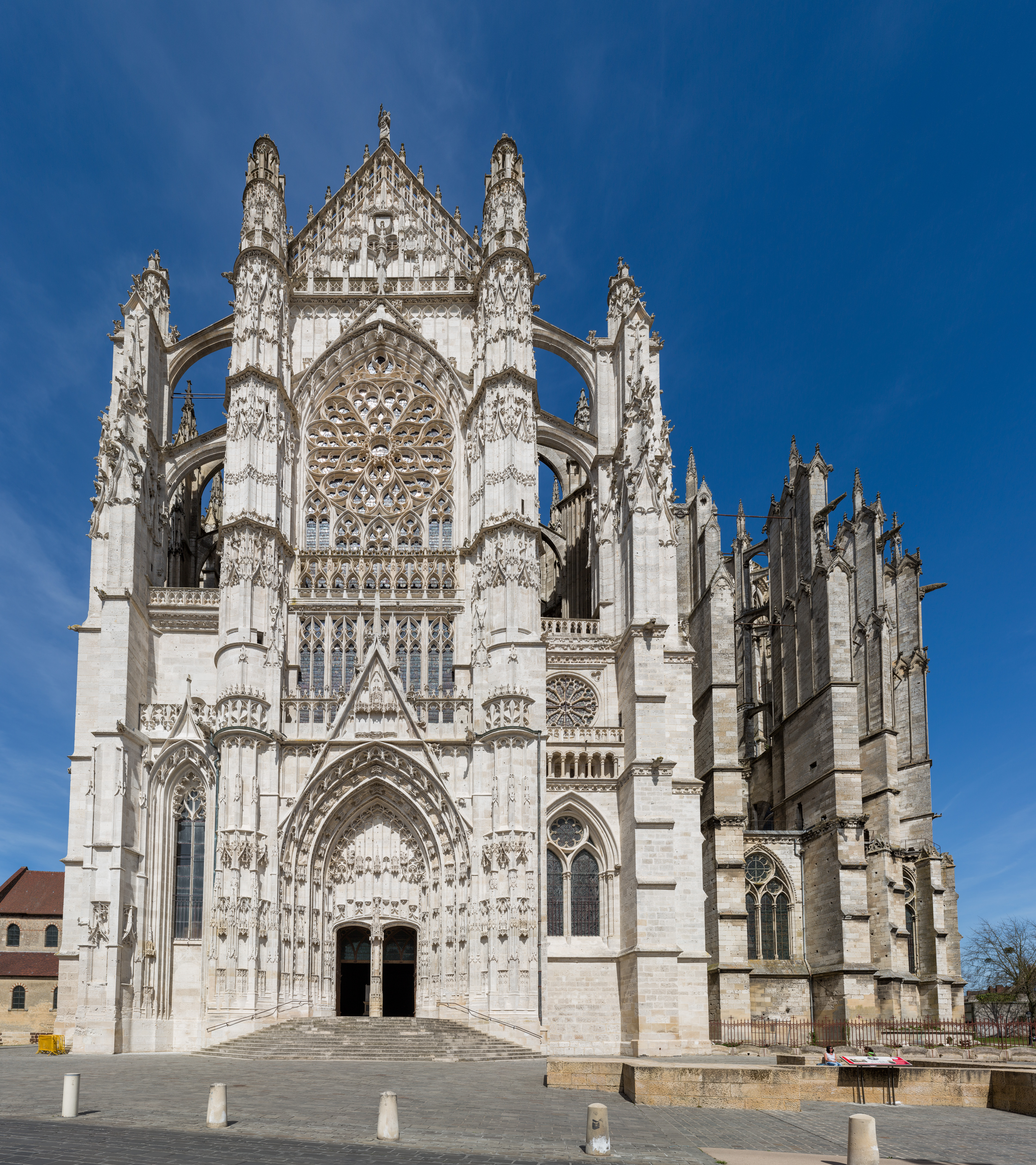 The exterior of Beauvais Cathedral in Picardy, France.